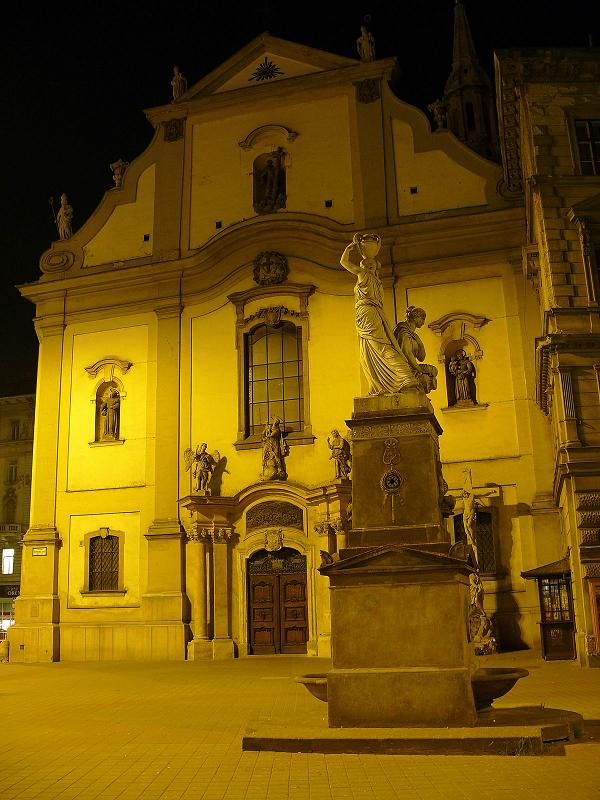 Downtown Franciscan Church in Budapest